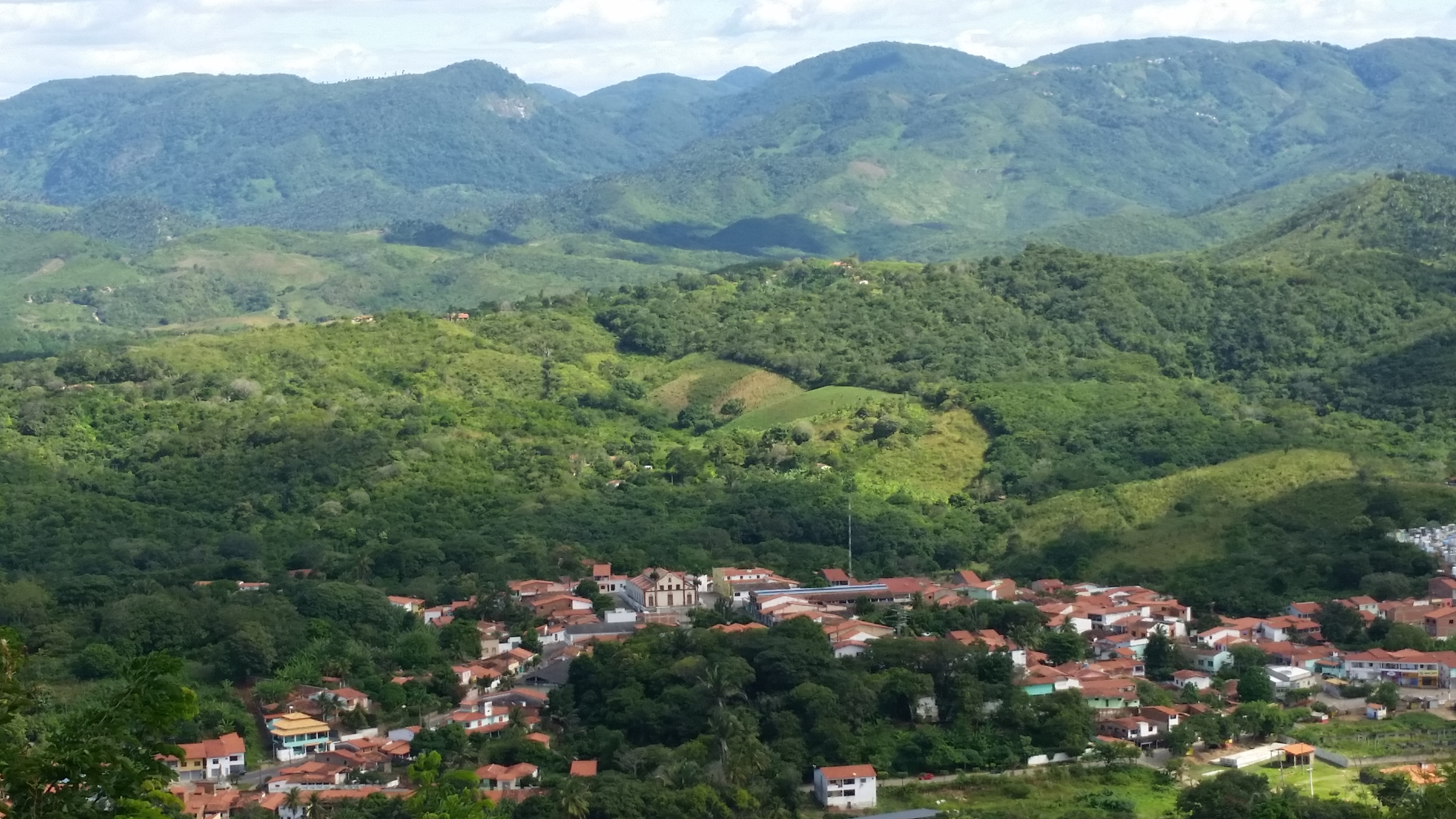 Palmácia